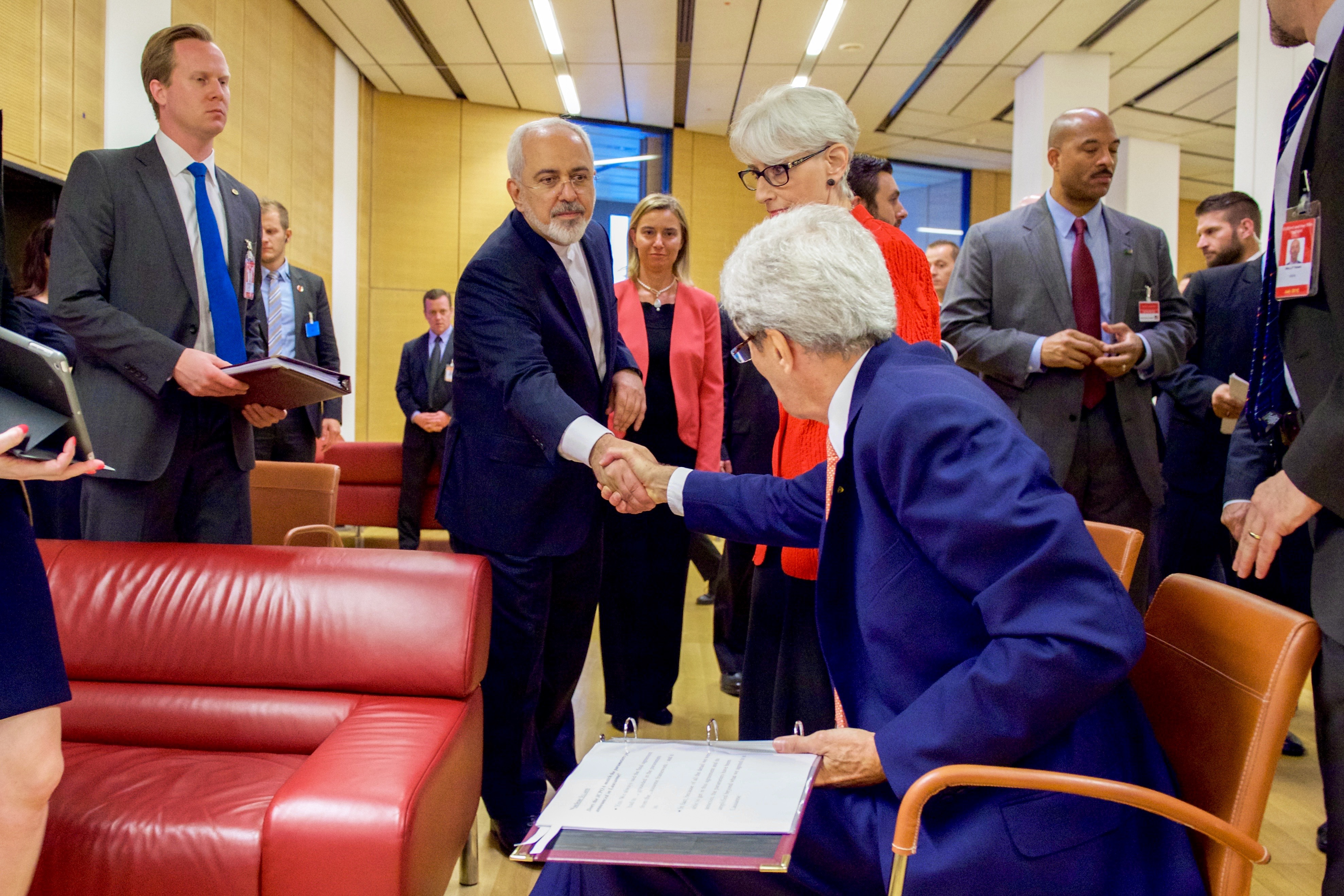 Secretary Kerry shakes hands with minister Zarif in front of Federica Mogherini at the end of negotiations of nuclear program of Iran. These negotiations concluded to the Joint Comprehensive Plan of Action agreement on 14 July 2015 between Iran and the P5+1.